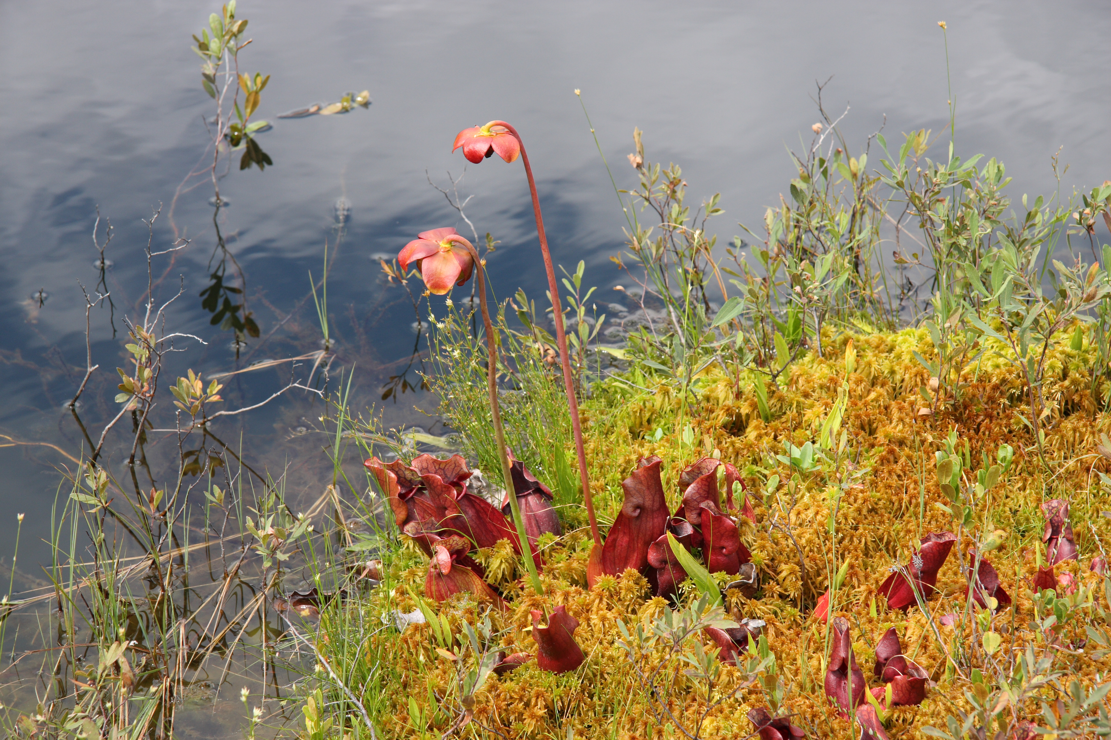 Sarracenia purpurea, Lac de la Tourbière, La Mauricie National Park, Quebec, Canada